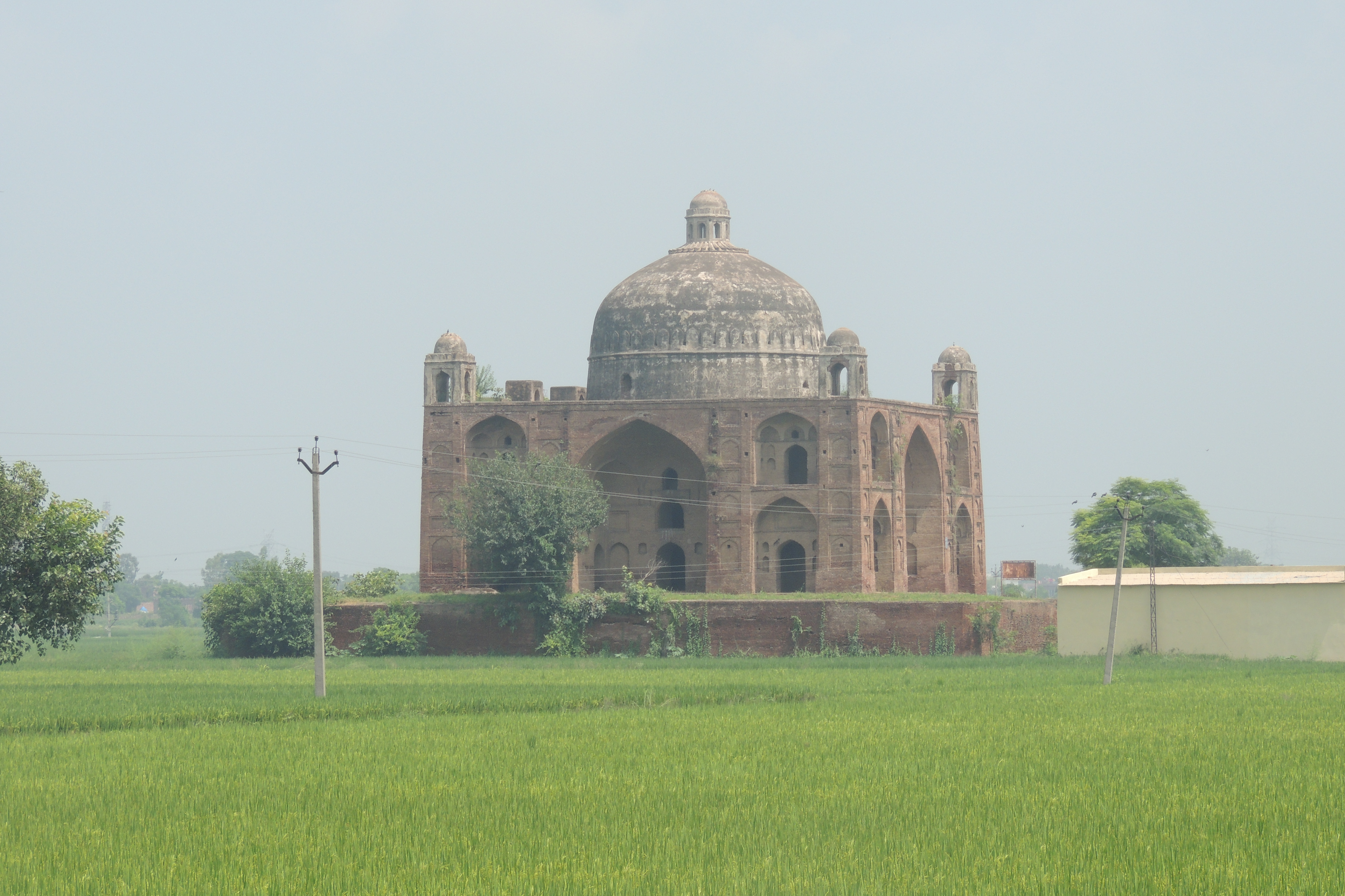 Tomb of Ustad,vill Talania, Sirhind